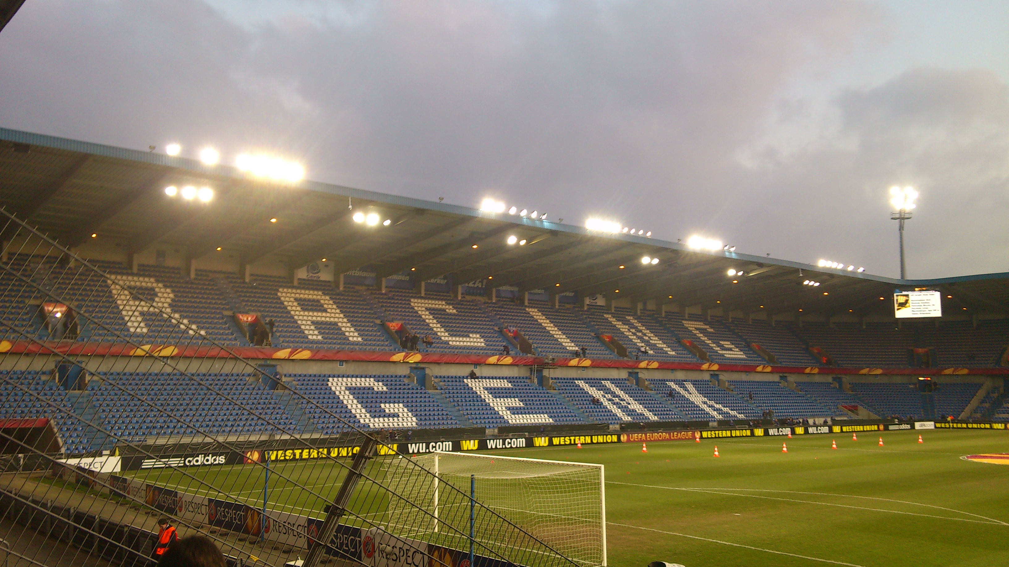 opposite stand of Cristal Arena